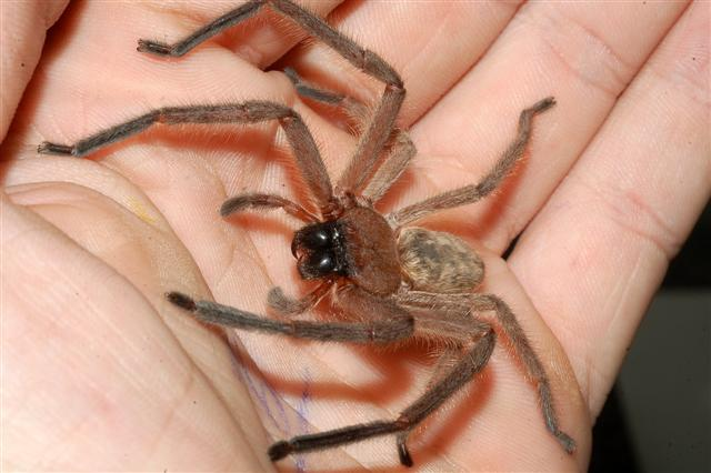 Female Delena cancerides, Huntsman Spider or Avondale Spider, native to Australia, naturalised in New Zealand, associated there with the Auckland suburb of Avondale.